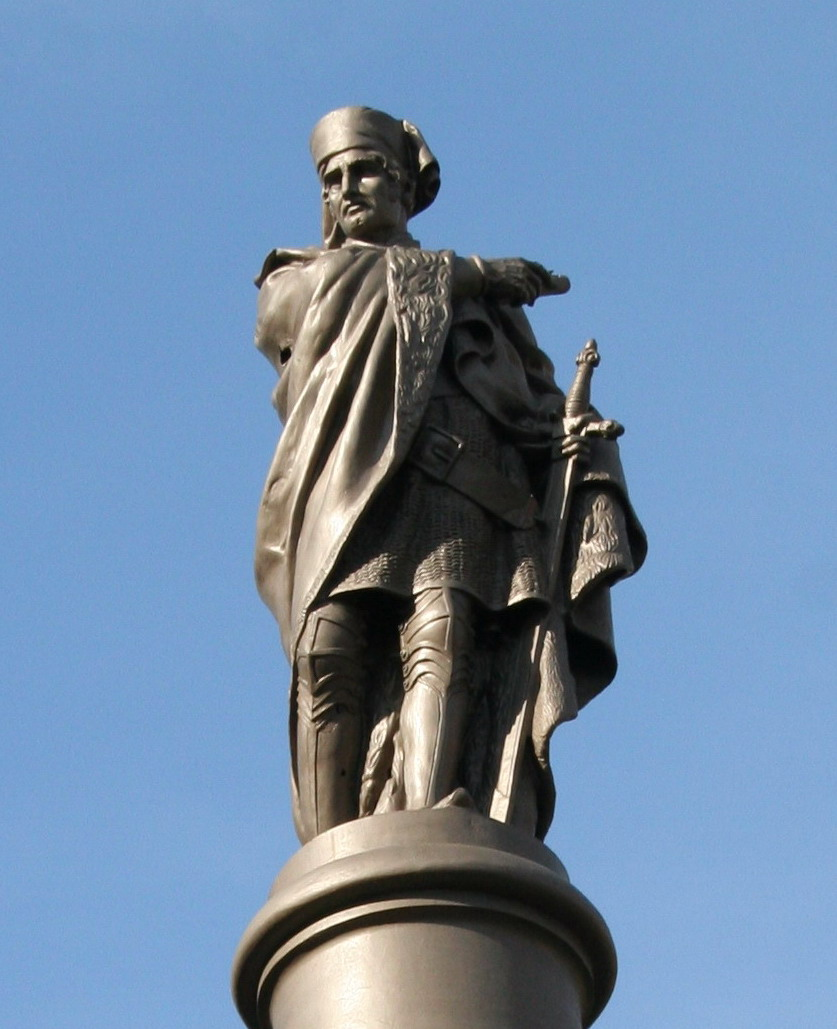 Galzeran Marquet by Damià Campeny (1851) in Barcelona